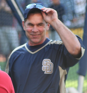 Bruce Bochy Manager for the San Diego Padres